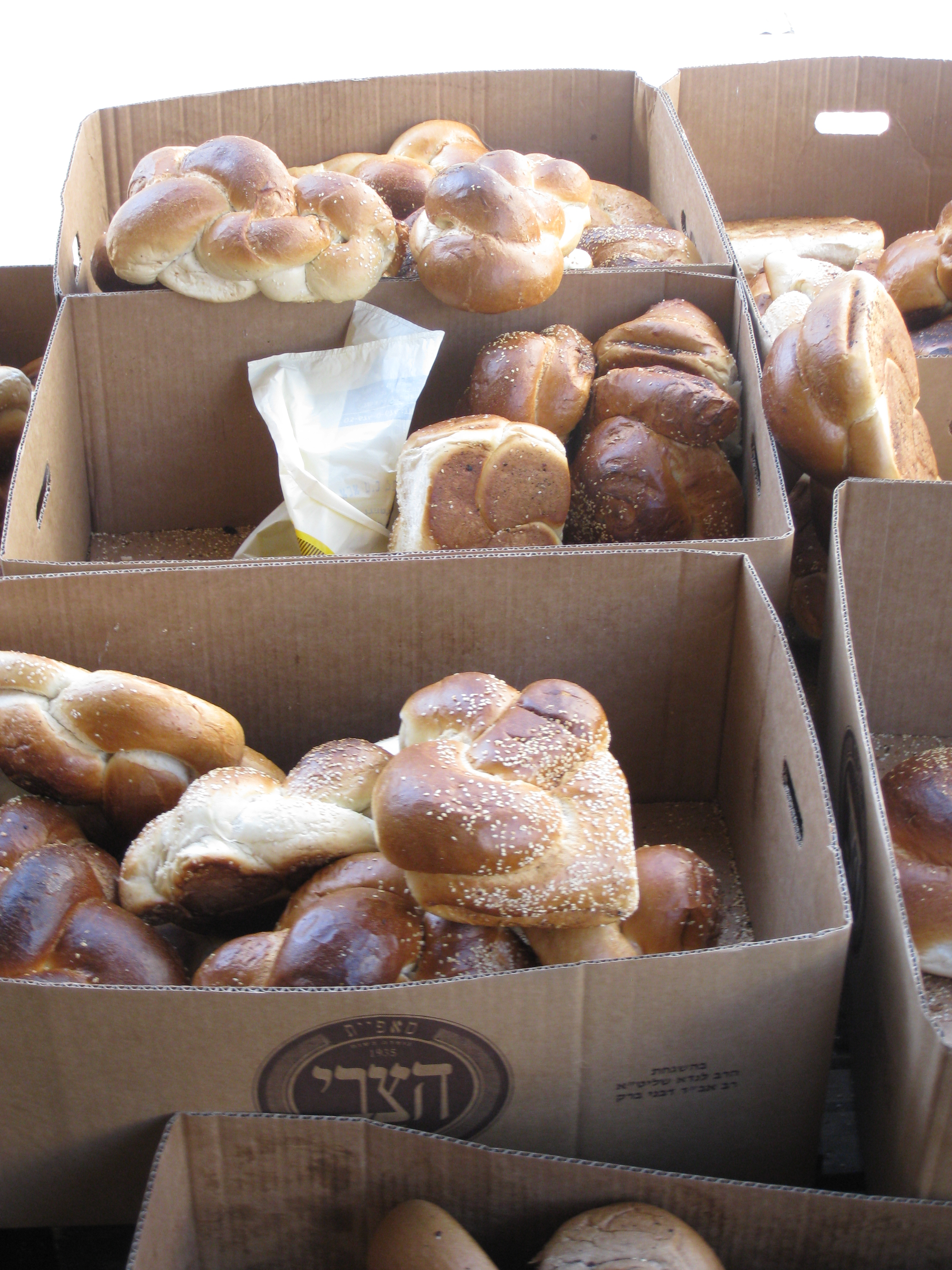 Bnei Brak